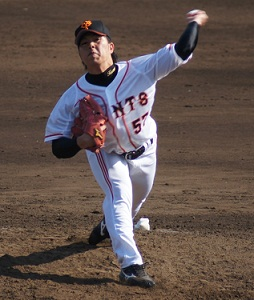 giants kumon 57